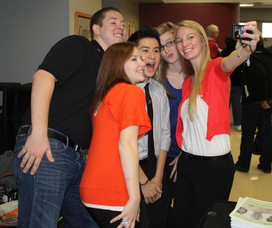 OSU-OKC students get together for a quick picture during a scholarship luncheon.